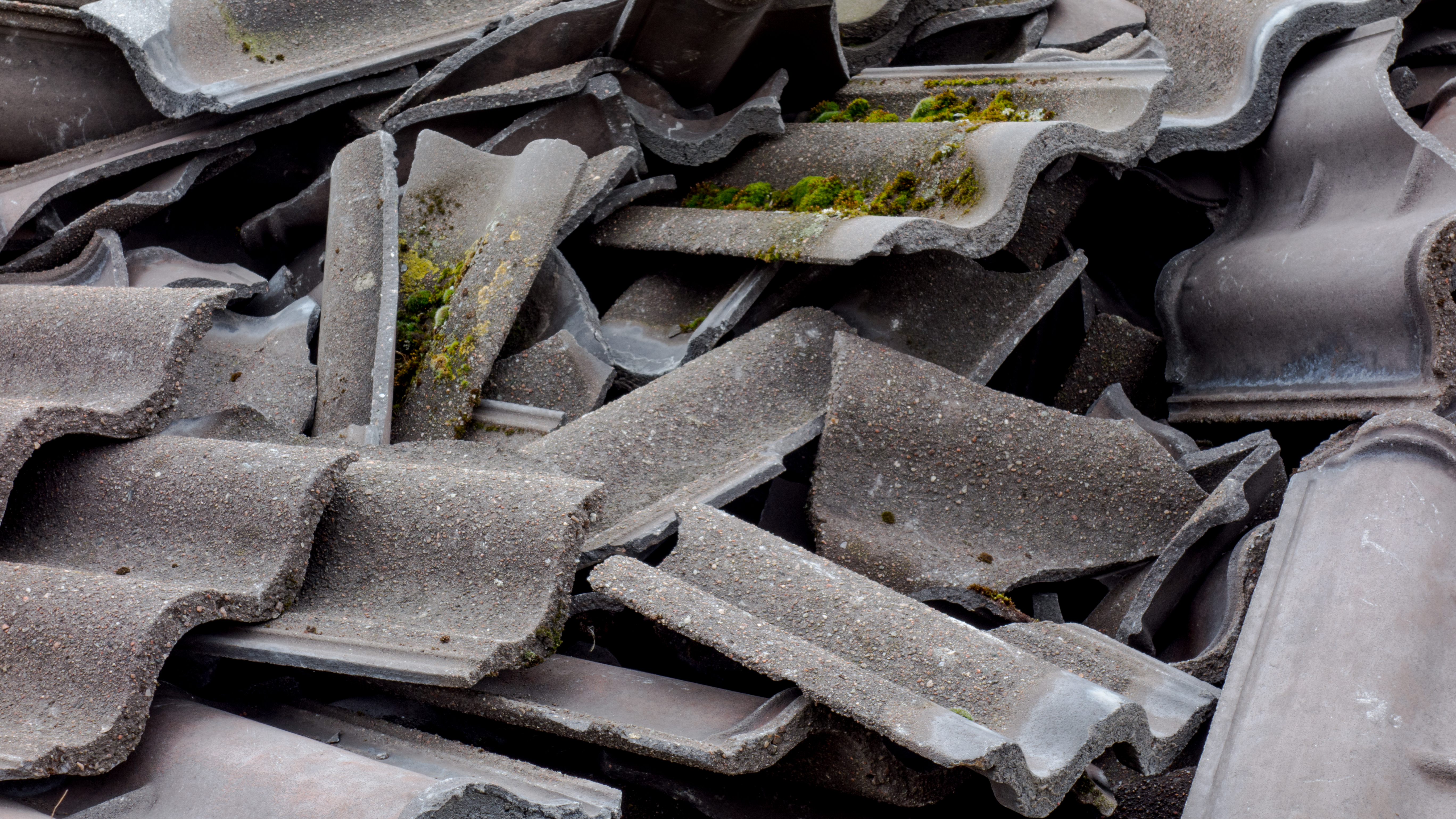 A pile of broken black concrete roof tiles in Gåseberg industrial area, Lysekil Municipality, Sweden.